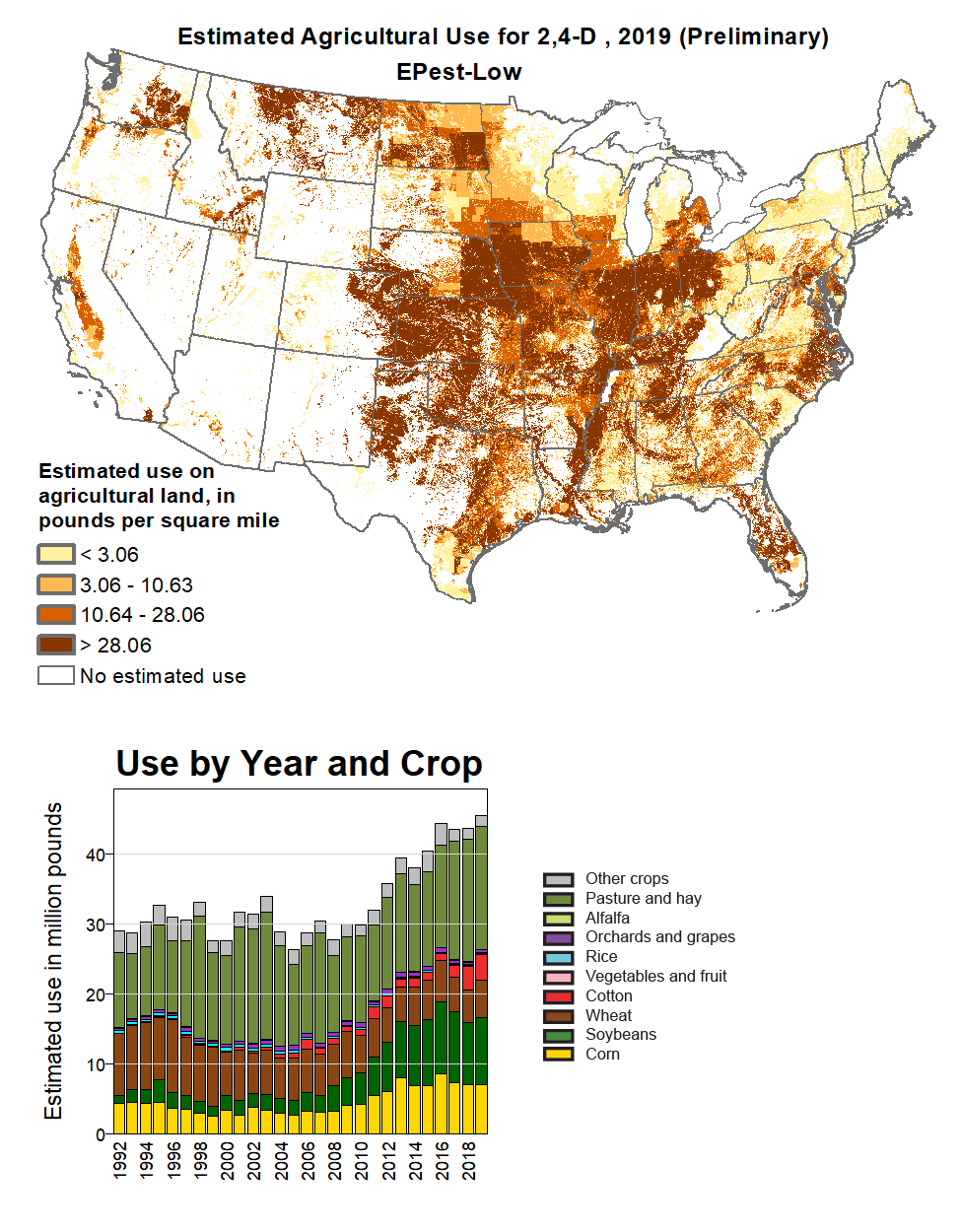 Use of the herbicide 2,4-D in the USA for 2016, estimated by the US Geological Survey